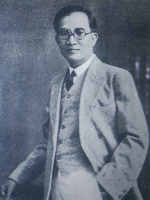 Image of former President of Philippines, Jose P. Laurel